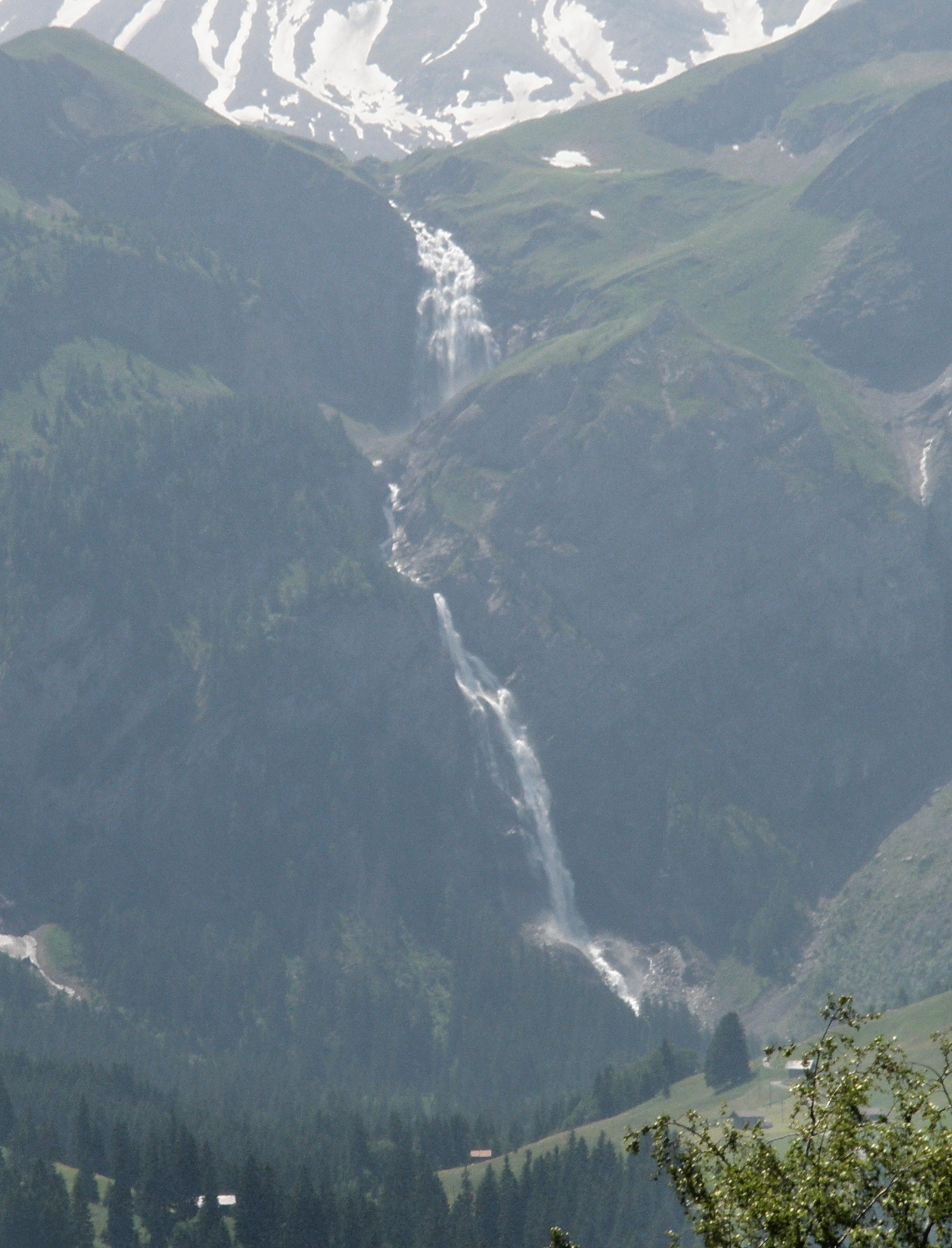 Engstligen Falls seen from Adelboden